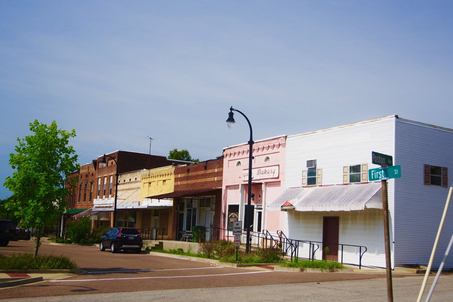 Buildings along 1st Street in Maury City, Tennessee, United States.